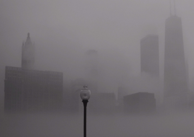 Chicago, Illinois skyline in the fog This is a photograph of the skyline of Chicago, Illinois USA in the fog. The picture was taken by David Sky, on Friday, August 23rd, 2002 around 1:30PM using a Canon PowerShot S100 without a tripod. See also Chicago skyline during the day